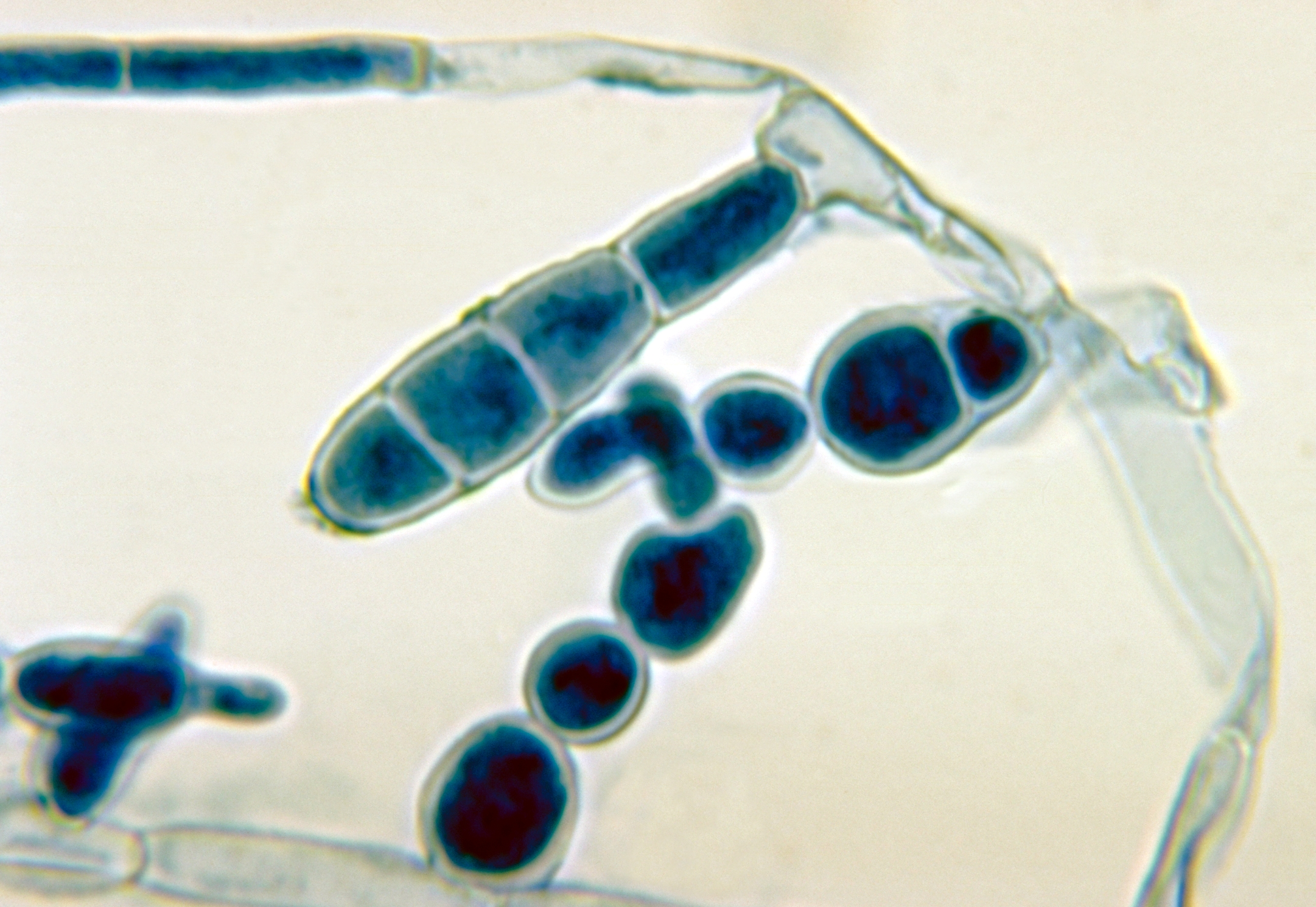 Macroconidia of the dermatophytic fungus Epidermophyton floccosum. Obtained from the CDC Public Health Image Library. Image credit: CDC/Dr. Libero Ajello (PHIL #4207), 1972.